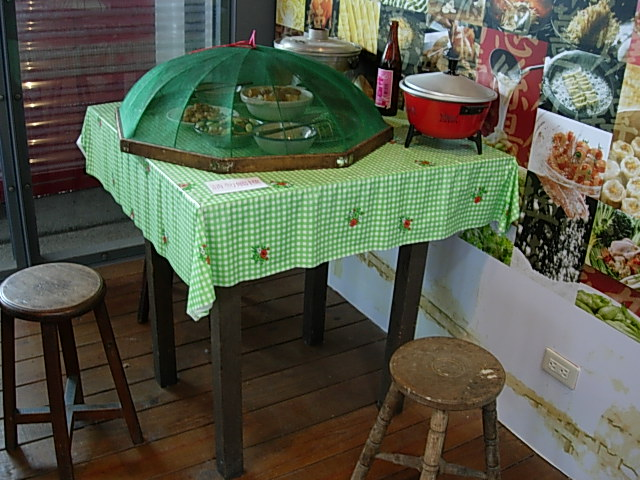 "forty four south village"("四四南村") kitchen table. Taipei, Taiwan.